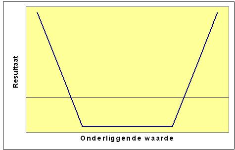 Strangle, option strategy, finance